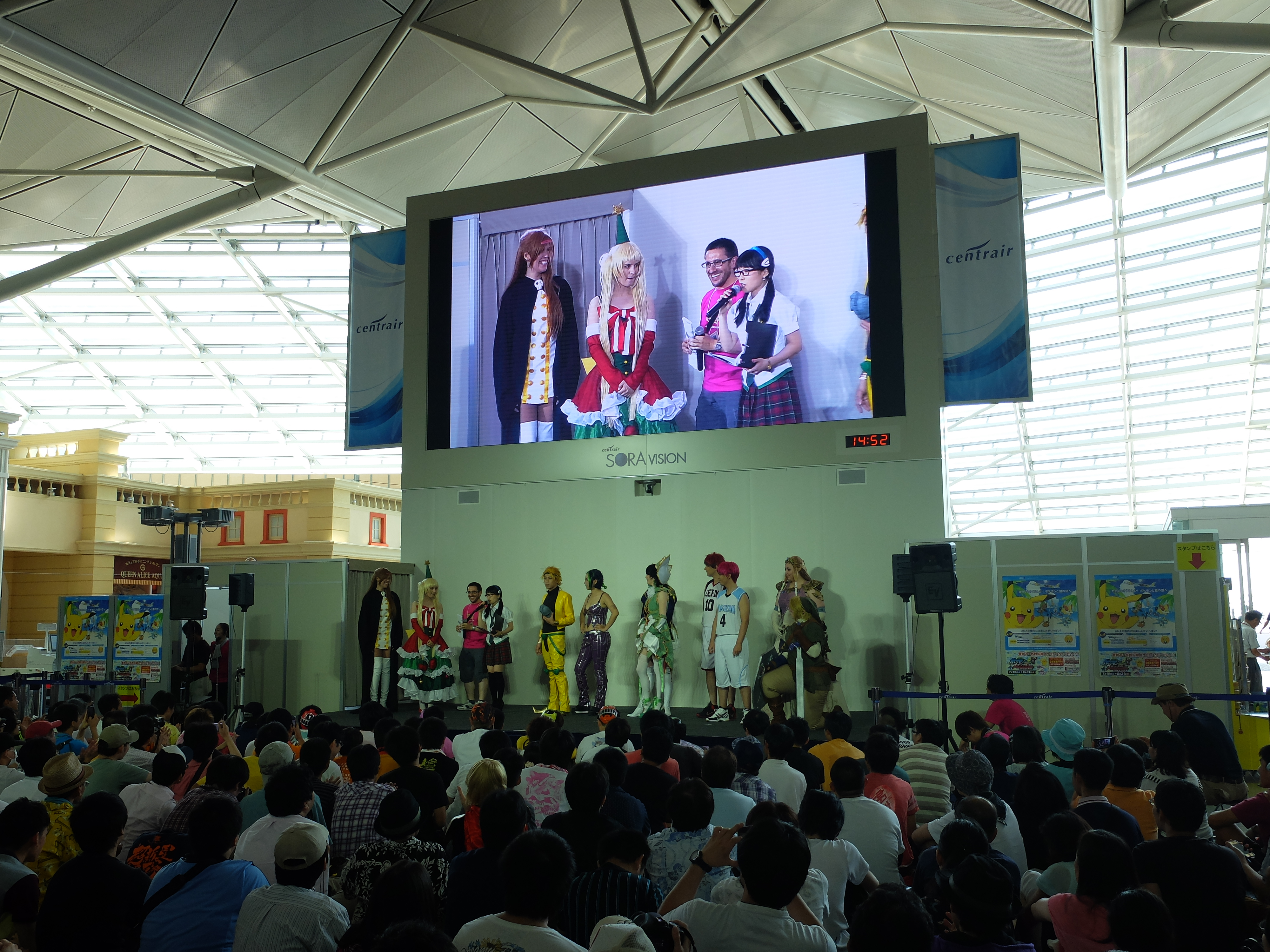 World Cosplay Summit 2014 in Centrair Airport